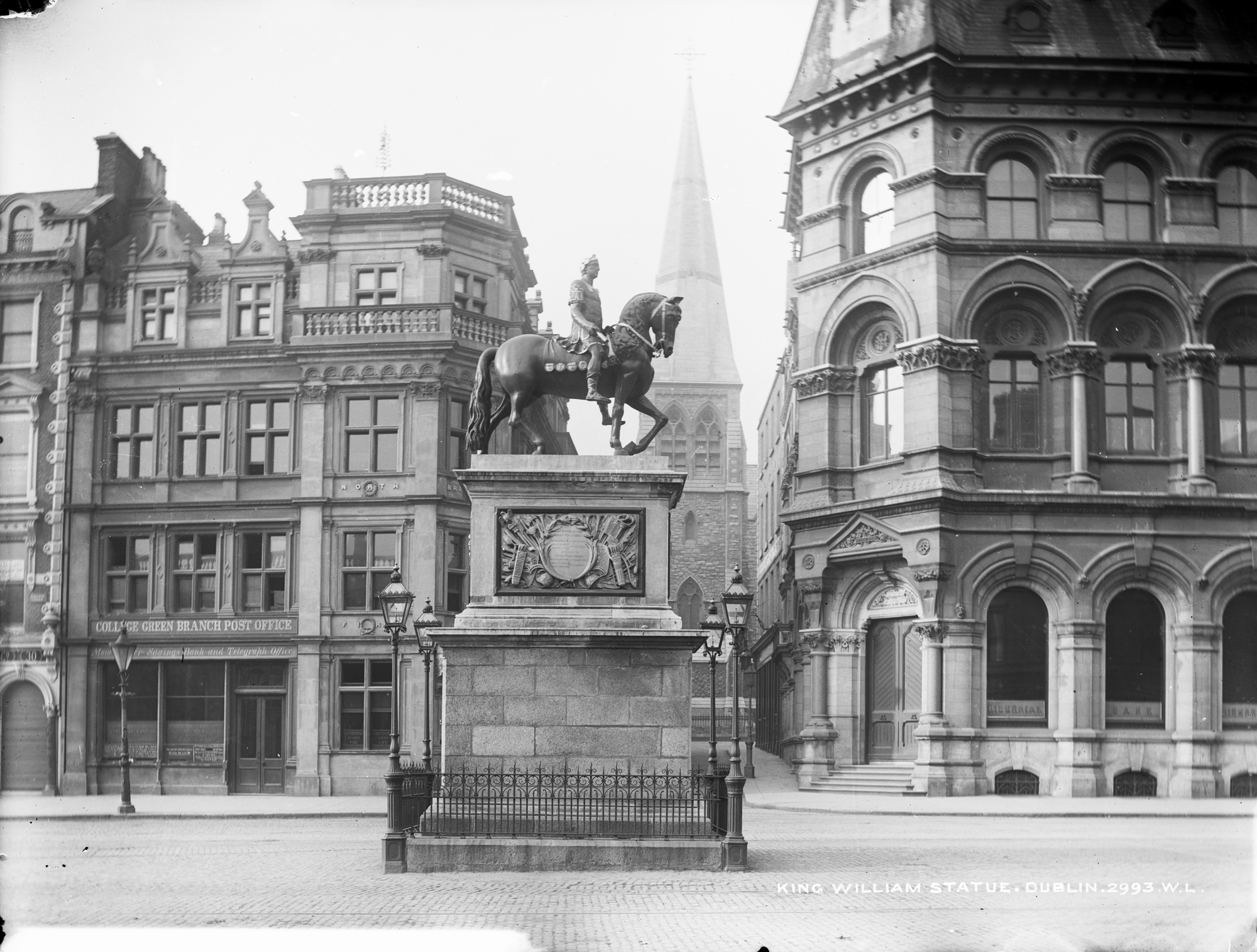 Statue of William III aka William of Orange on College Green/Dame Street in Dublin. From National Library of Ireland collection. Original by Robert French (1841-1917 photographer). Released by National Library of Ireland under Commons.